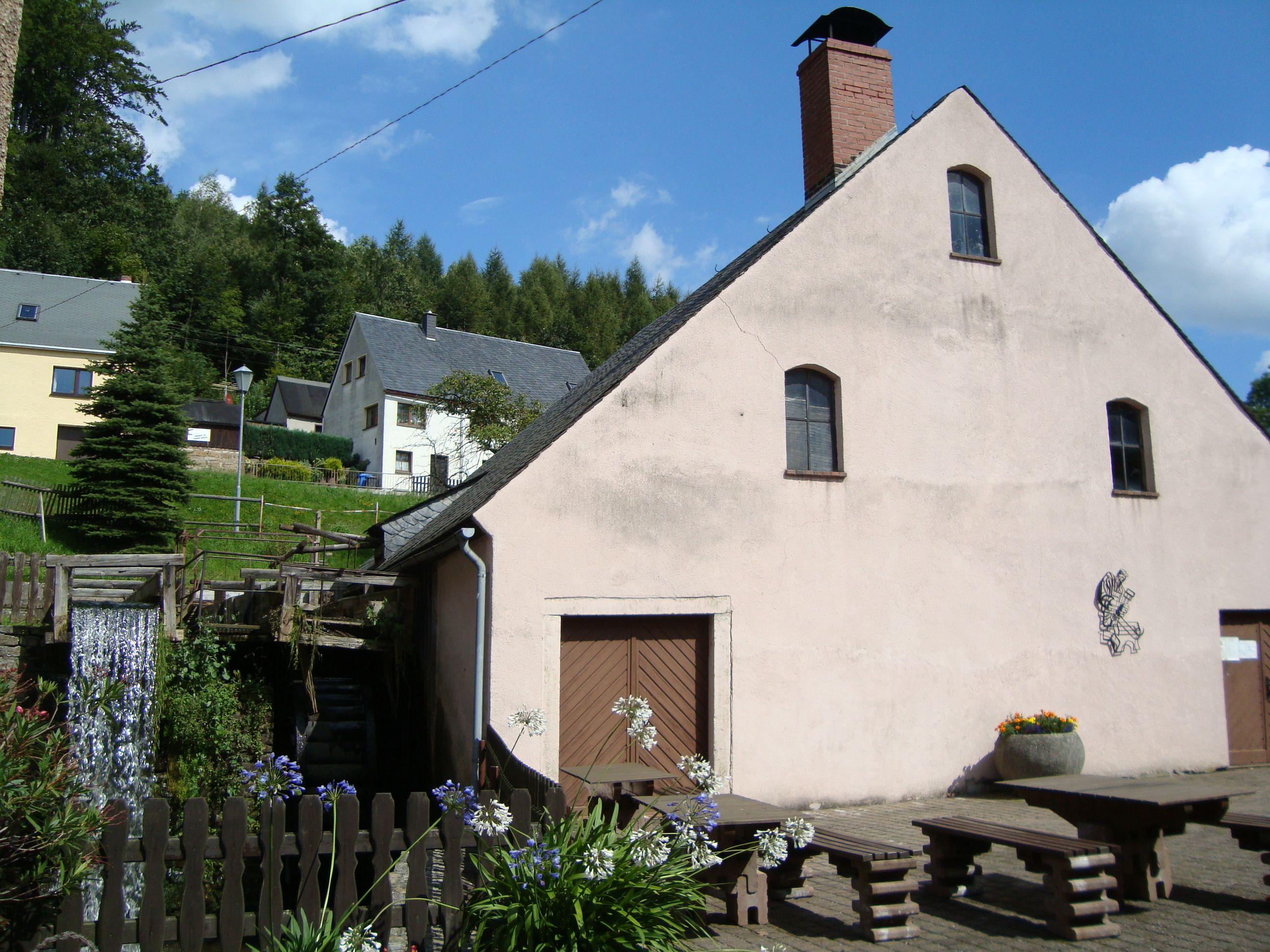 This image shows the historic ironworks in Dorfchemnitz in the Erzgebirge. The ironworks was built 1567.